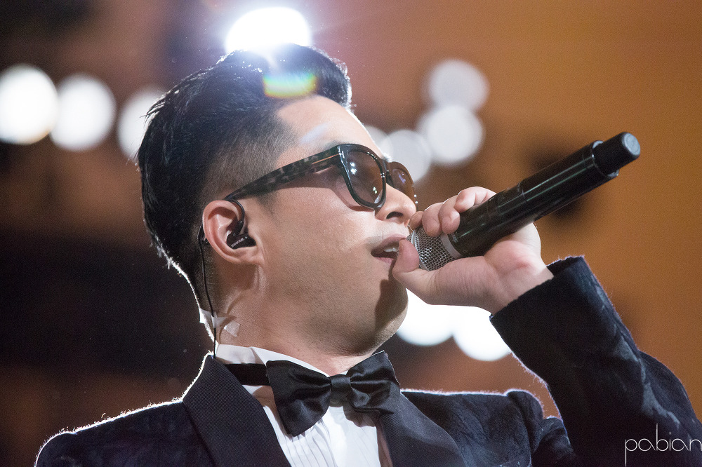 Jinu from Jinusean